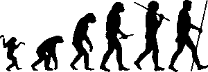 Simplified scheme of human evolution, it does not try to be trustworthy, but a symbol of this process